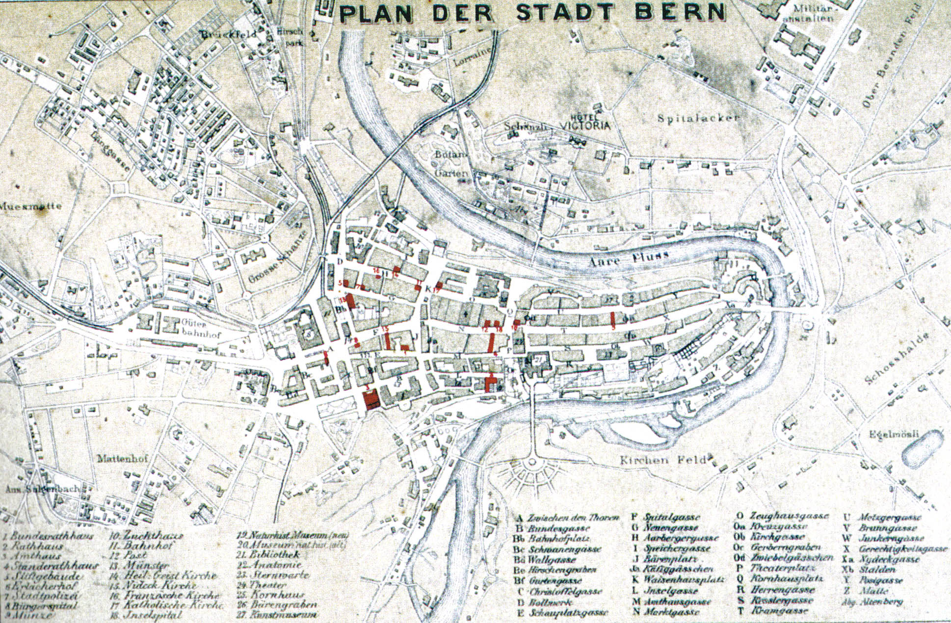 City map of Bern, 1882